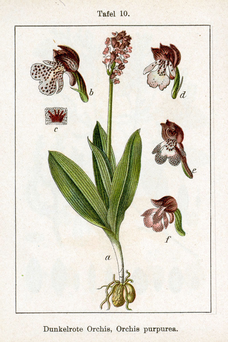 Orchis purpurea Huds. Original Description Dunkelrote Orchis, Orchis purpurea